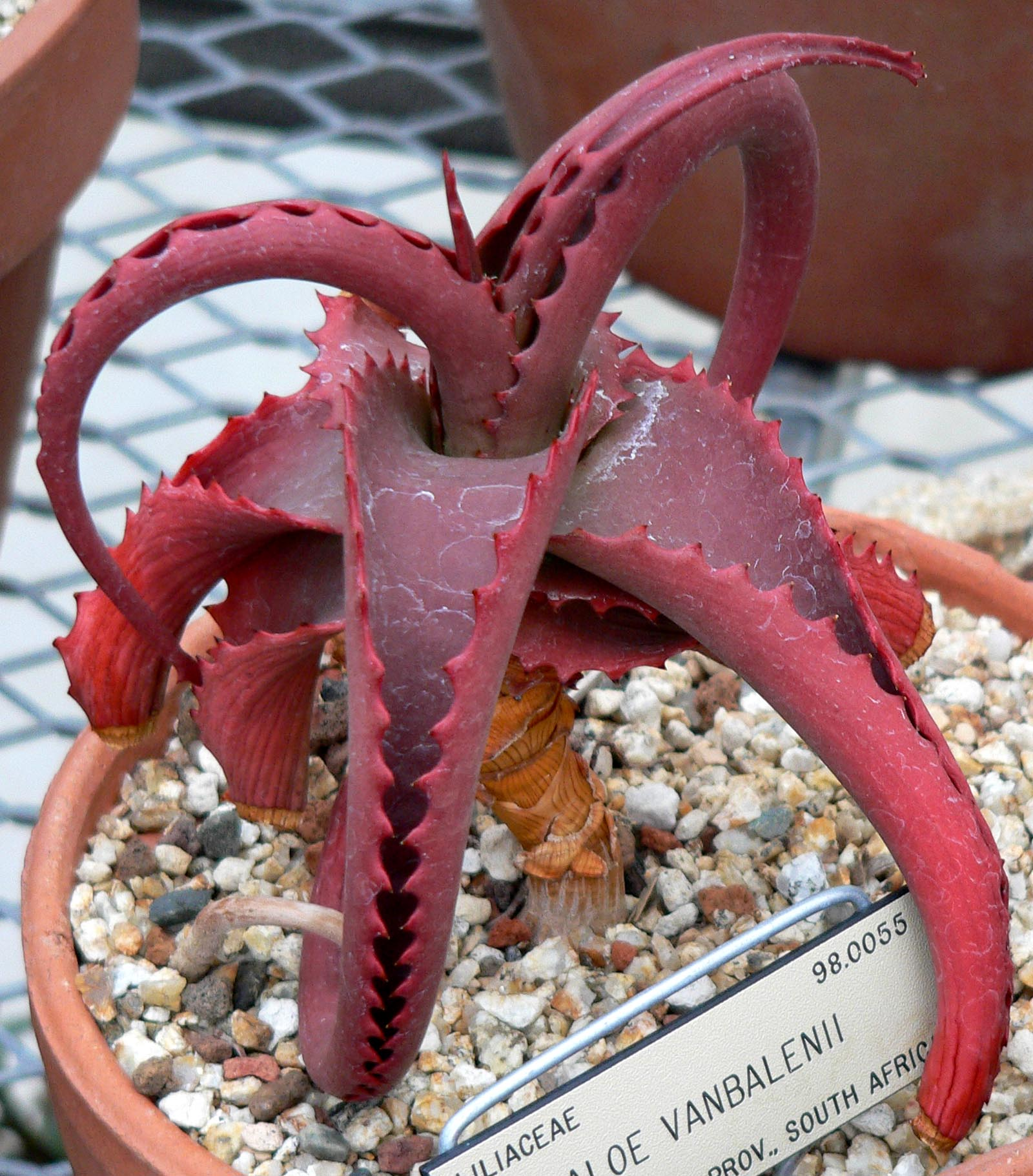 Photo of Aloe vanbalenii at the University of California Botanical Garden